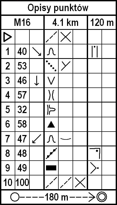 Example of control description